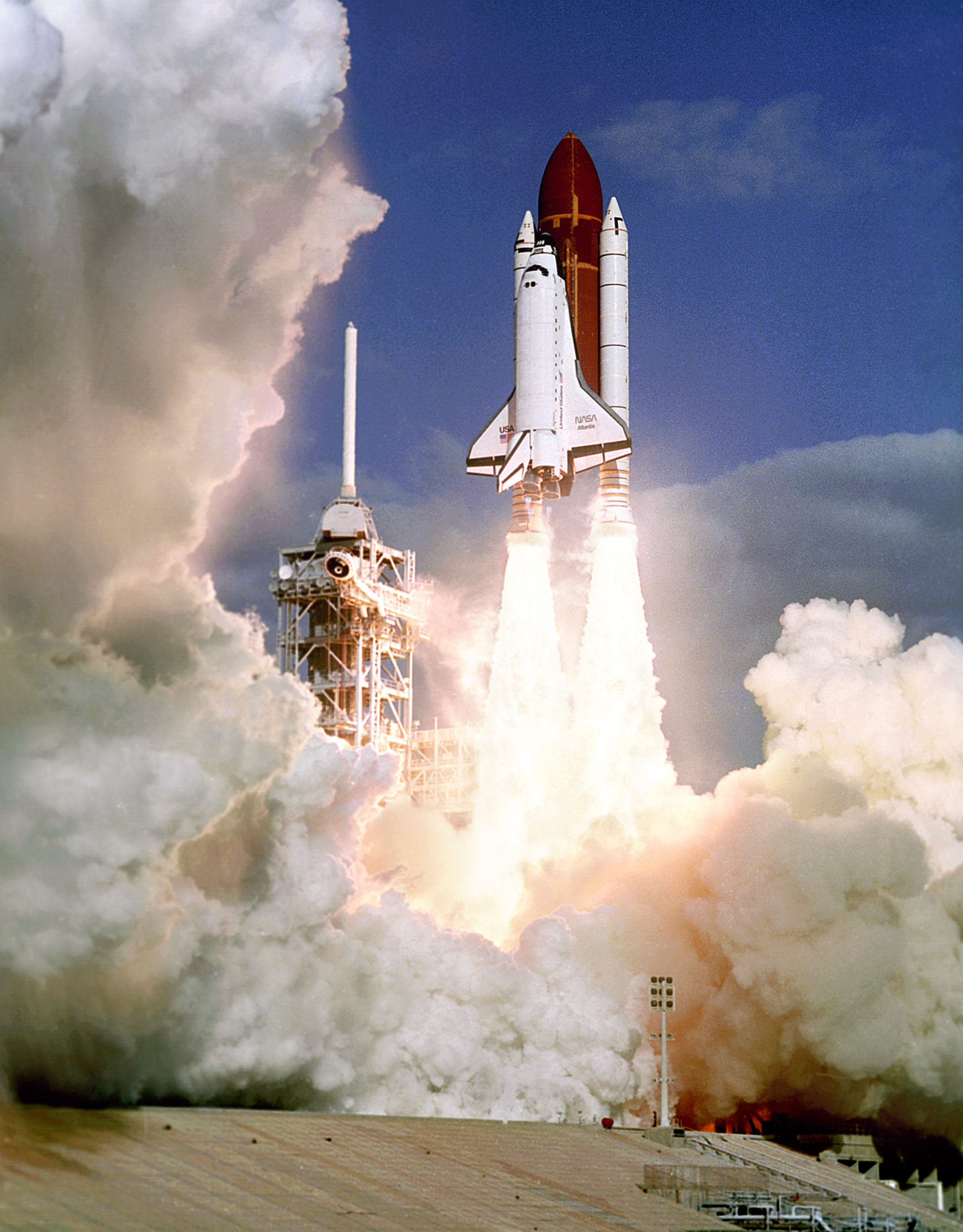 Launch of Atlantis from LC-39B on the 3rd classified Shuttle mission.